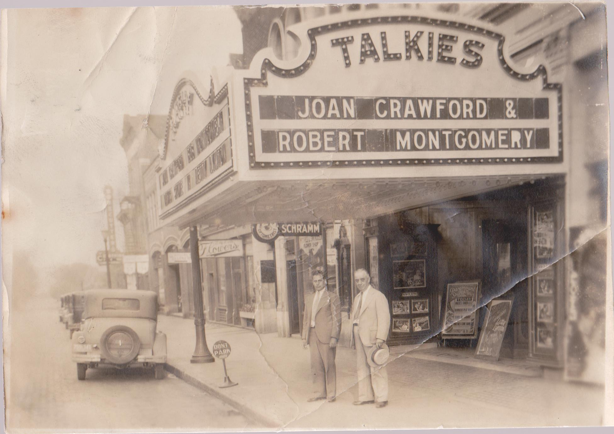 Charles Murphy at the theatre named for him.